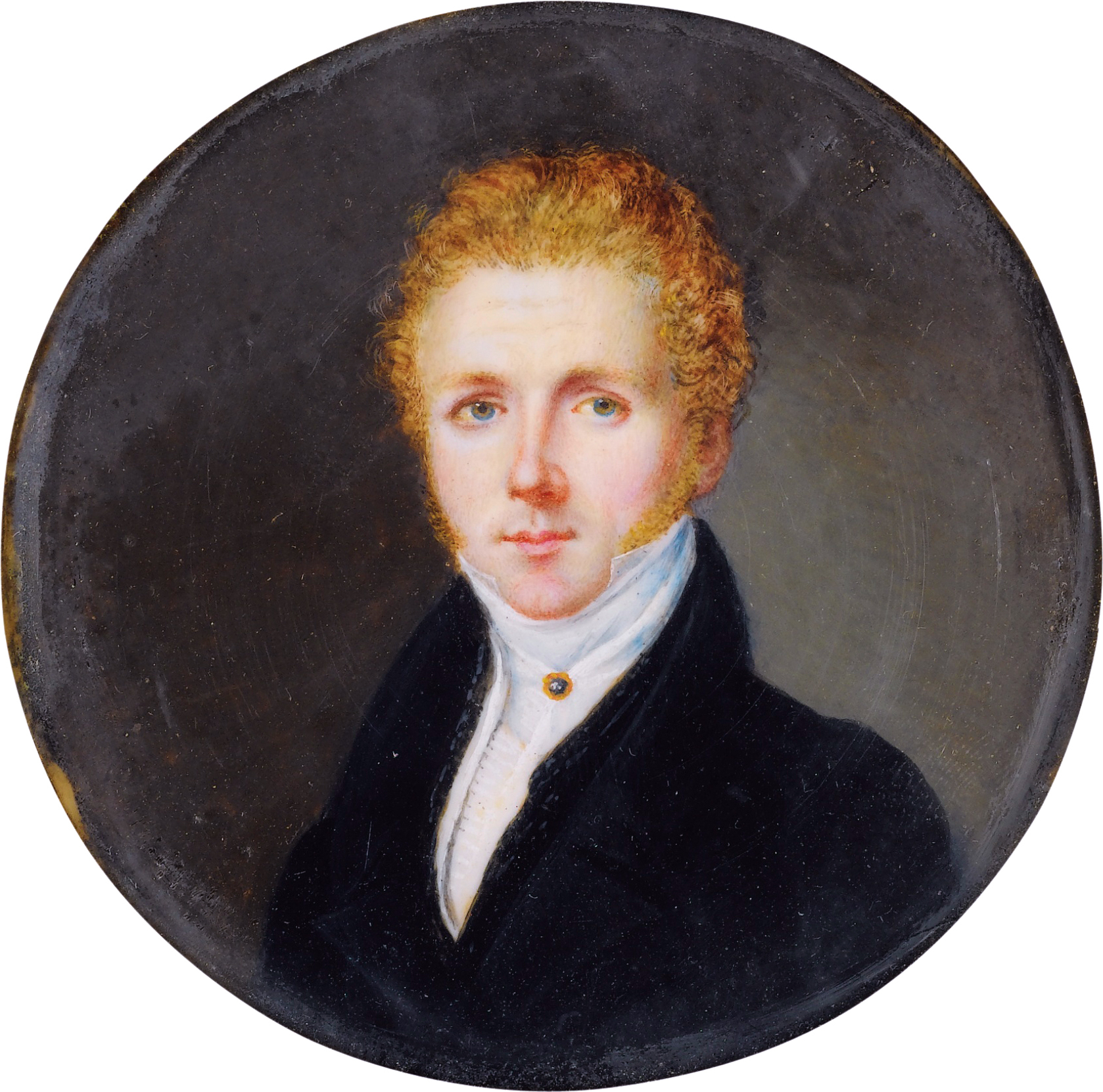 Vincenzo Bellini (1801 -1835) gouache 5.8 cm circa 1830